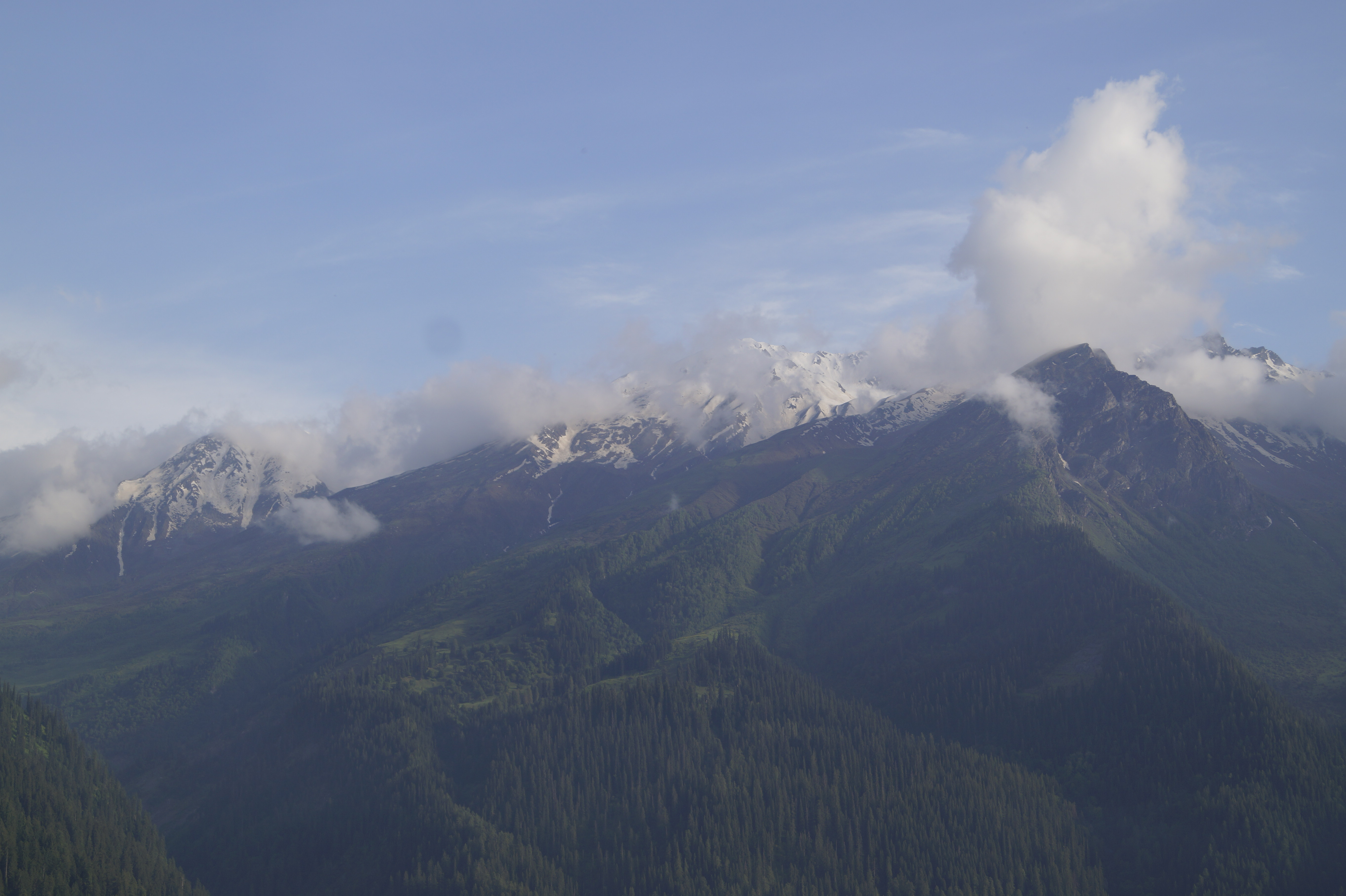 Tosh in Rains